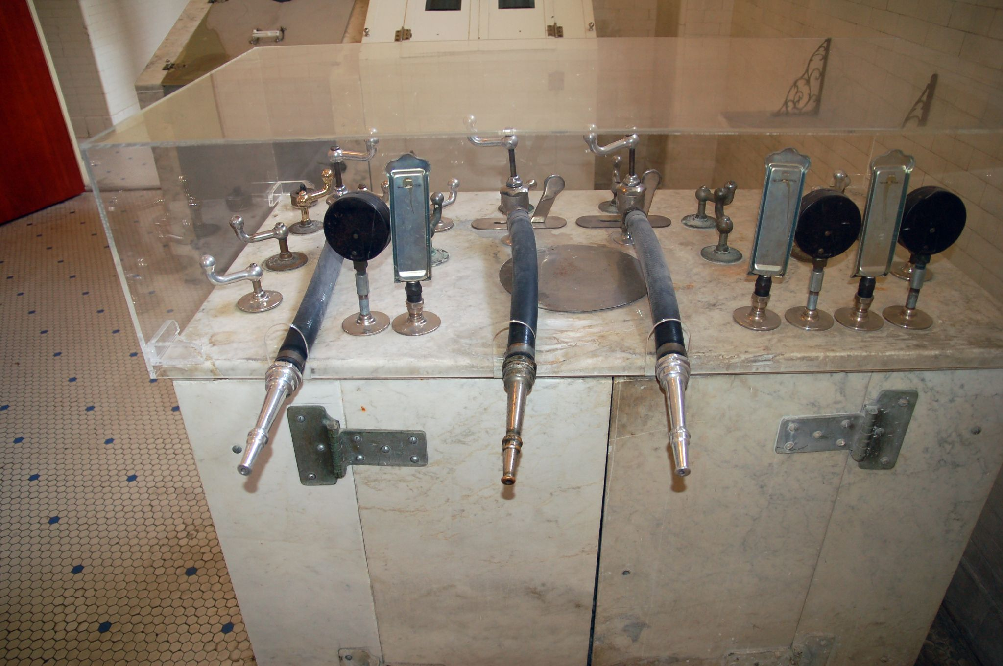 A photo of nozzles, controls, and gauges in a hydrotherapy room located at the Fordyce Bathhouse in Hot Springs, Arkansas.